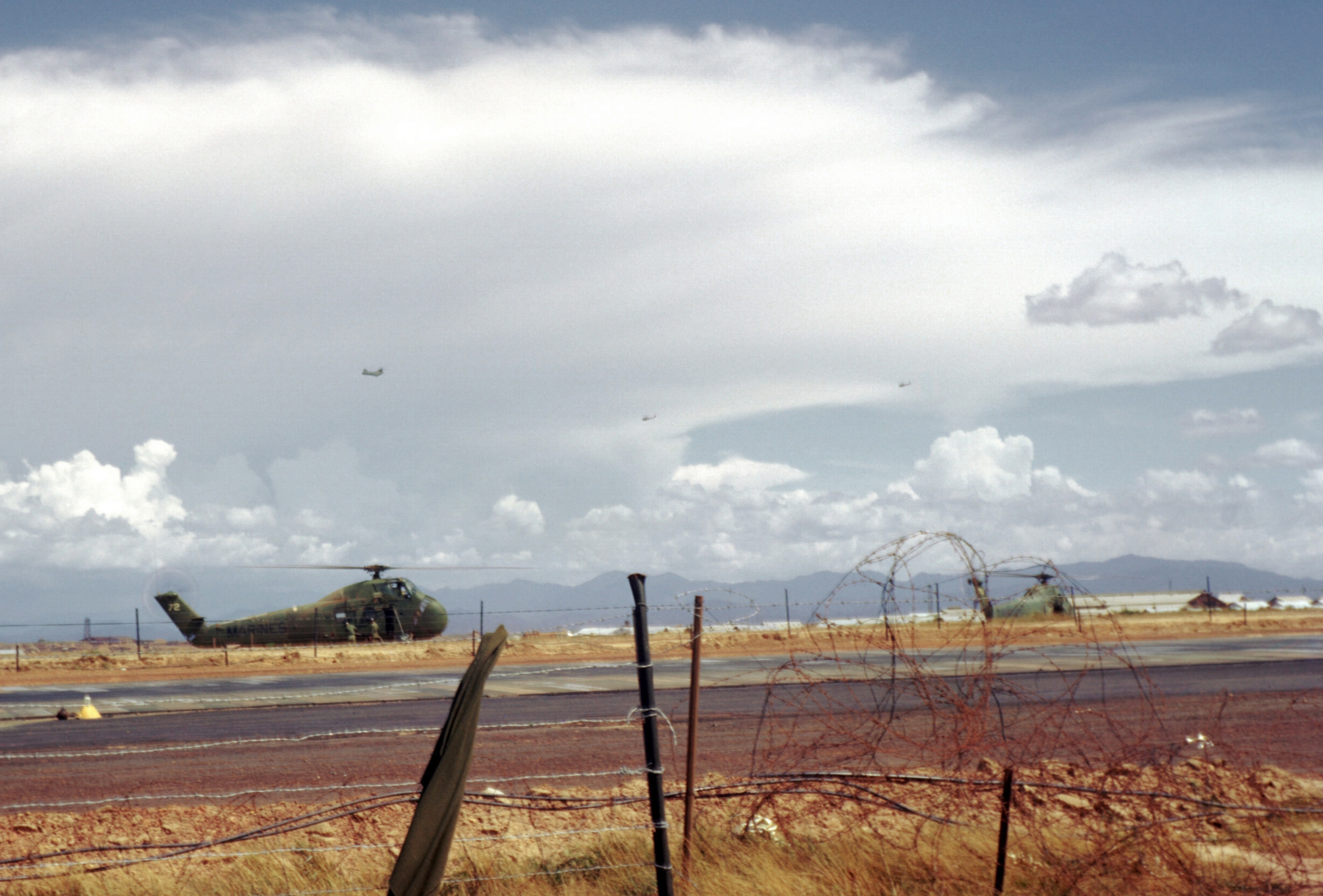 Two U.S. Marine Corps Sikorsky UH-34D Seahorse helicopters on the runway at Đông Hà, Quang Tri Province, Vietnam, in 1967. A Boeing-Vertol CH-46 Sea Knight and two Bell UH-1 Huey helicopters are airborne in the background.